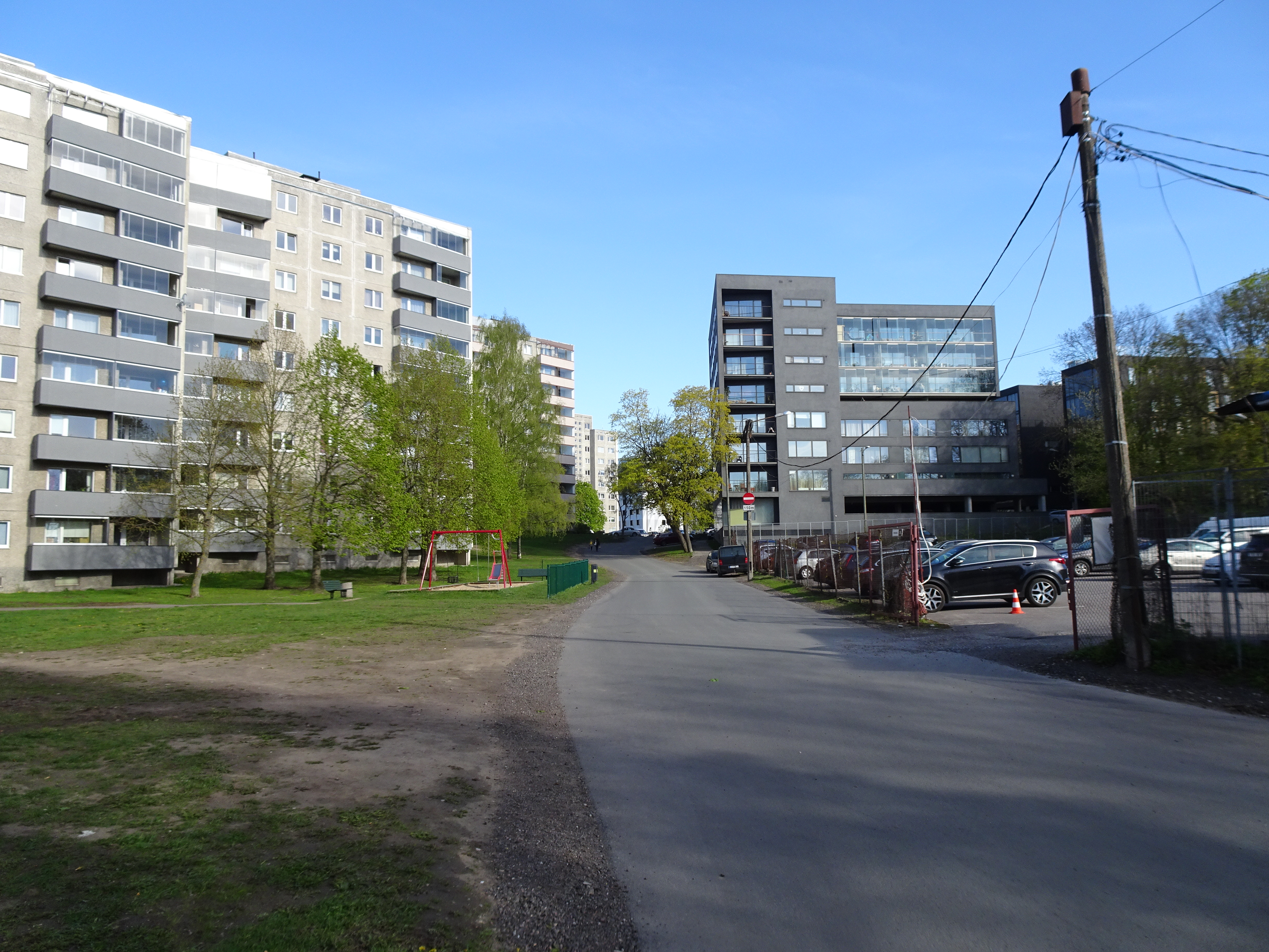 Imanta Street in Tallinn, Estonia